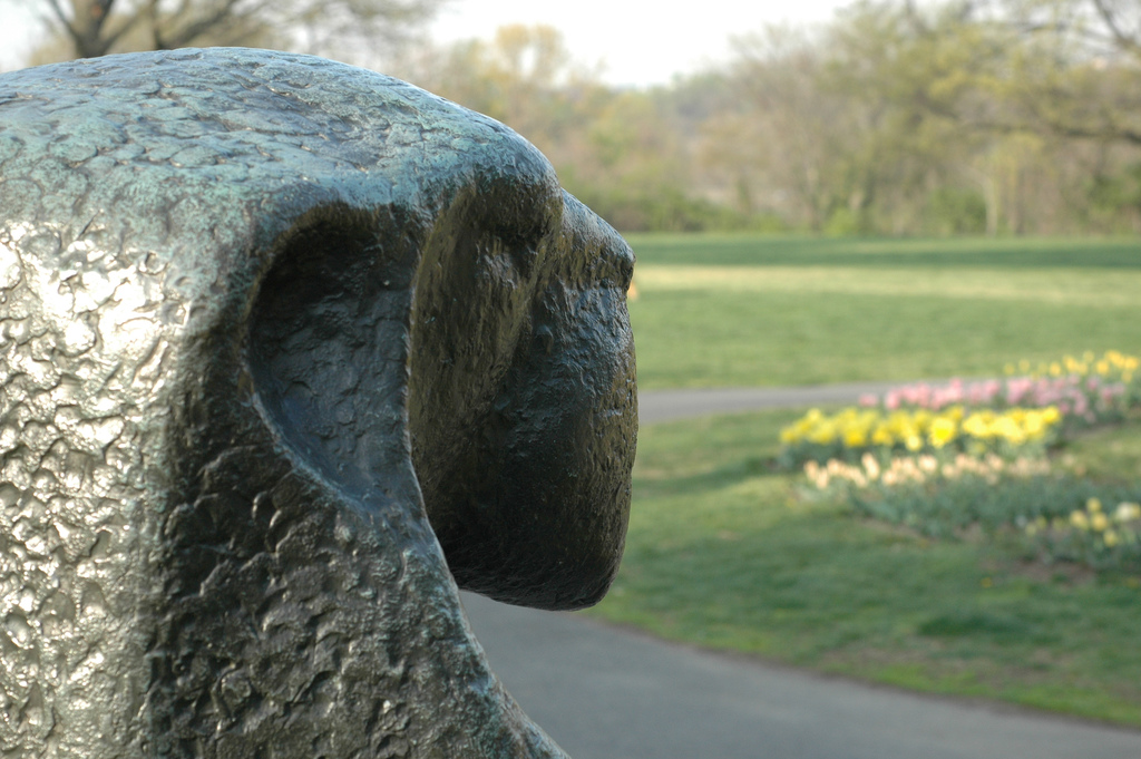 Bronze lion overlooking field of tulips at arlington at the Netherlands Carillon